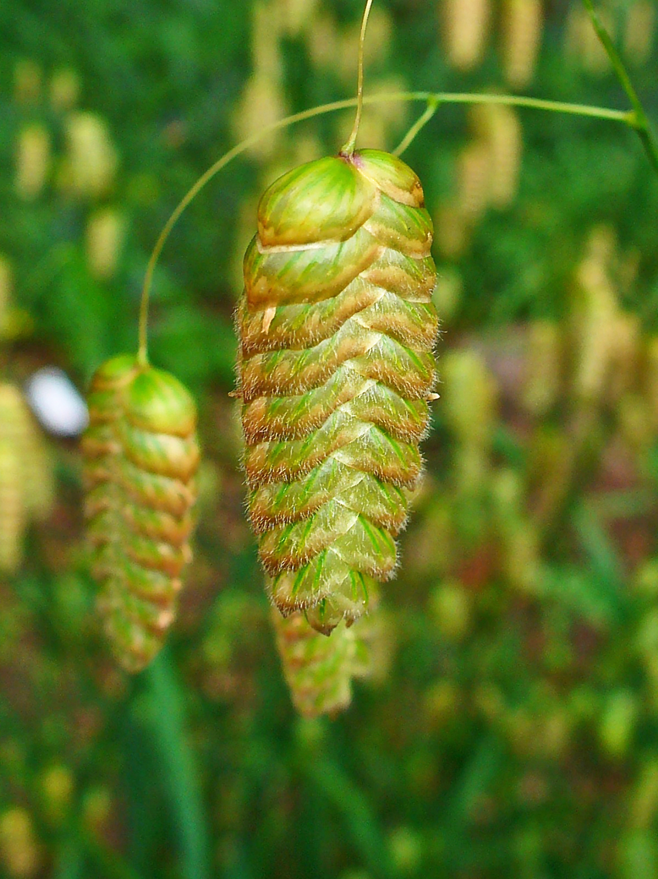 Briza maxima, Poaceae, Big Quaking Grass, Great Quaking Grass, Large Quaking Grass , Quaking Grass, Blowfly Grass, Shelly Grass, ear; Botanical Garden KIT, Karlsruhe, Germany.